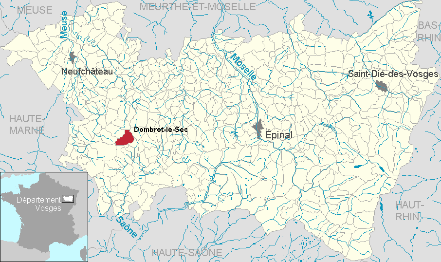 Dombrot-le-Sec in the department of Vosges, Lorraine, France